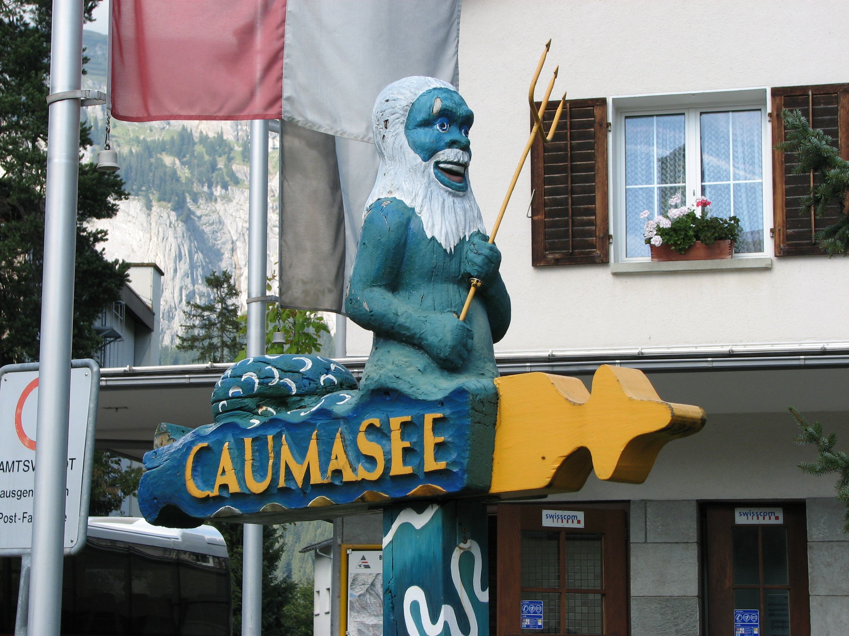 Direction to Caumasee in Flims Waldhaus